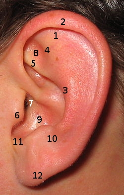 A left human ear.